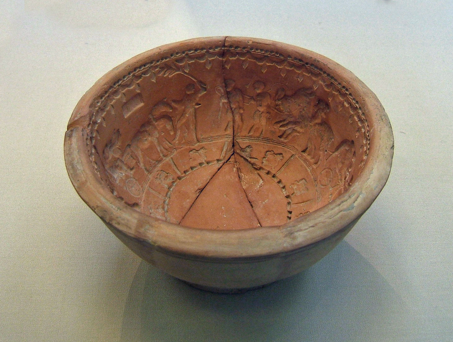 Mould for an Arretine vessel, from the workshop of P. Cornelius. 1st century BC. Rim diam. 17.8 cm. British Museum, London. GR 1896.12-17.3